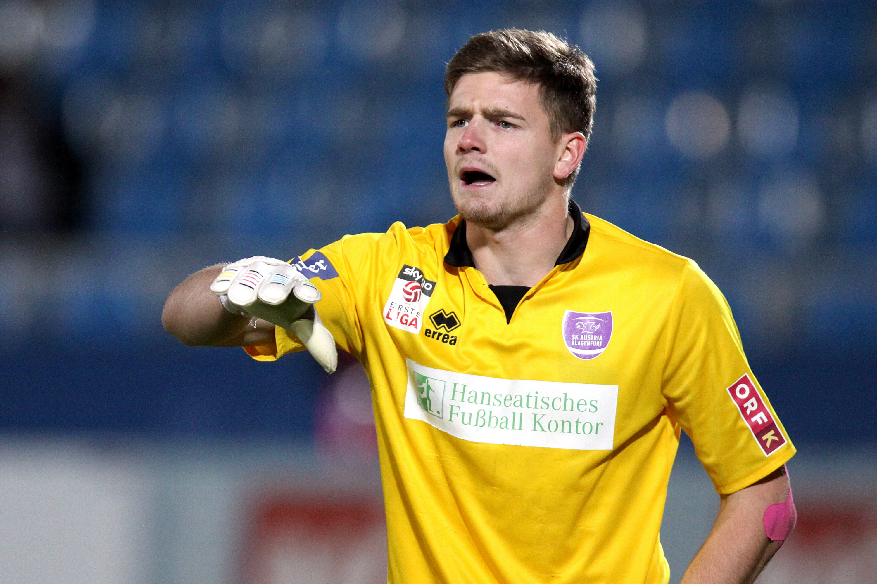 Match of the Erste Liga – SC Wiener Neustadt (blue/white shirts) vs. SK Austria Klagenfurt (red/white shirts) 1–1 (0-1) on 2015-10-20 in the Stadion in Wiener Neustadt – The photo shows Filip Dmitrovic (goalkeeper of SK Austria Klagenfurt).